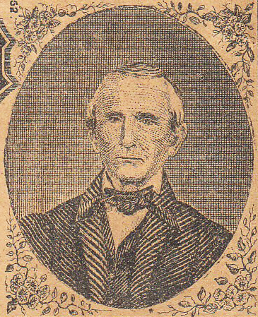 Daniel William Courts was the North Carolina State Treasurer.